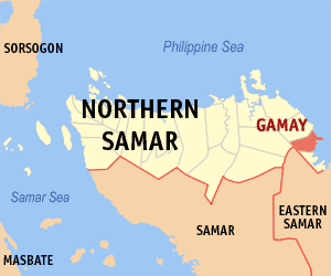 Map of Northern Samar showing the location of Gamay